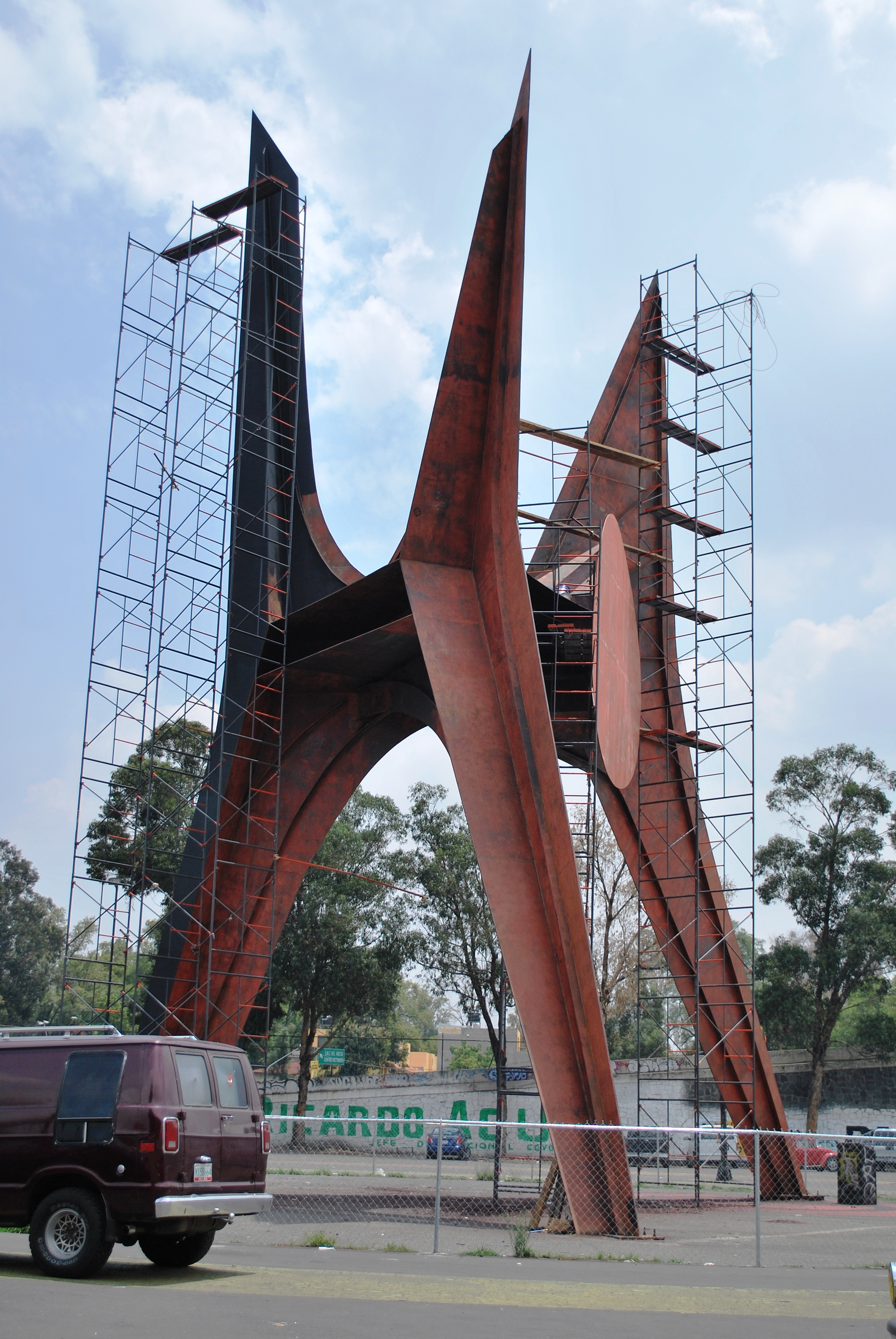 Sculpture by Alexander Calder in front of Estadio Azteca in Mexico City during renovation work.